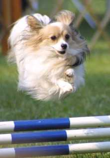 continental toy spaniel papillon - agility from: by: 20:53, 4 March 2006 . . Alexandersgirl (Talk) . . 221x317 (7,751 bytes